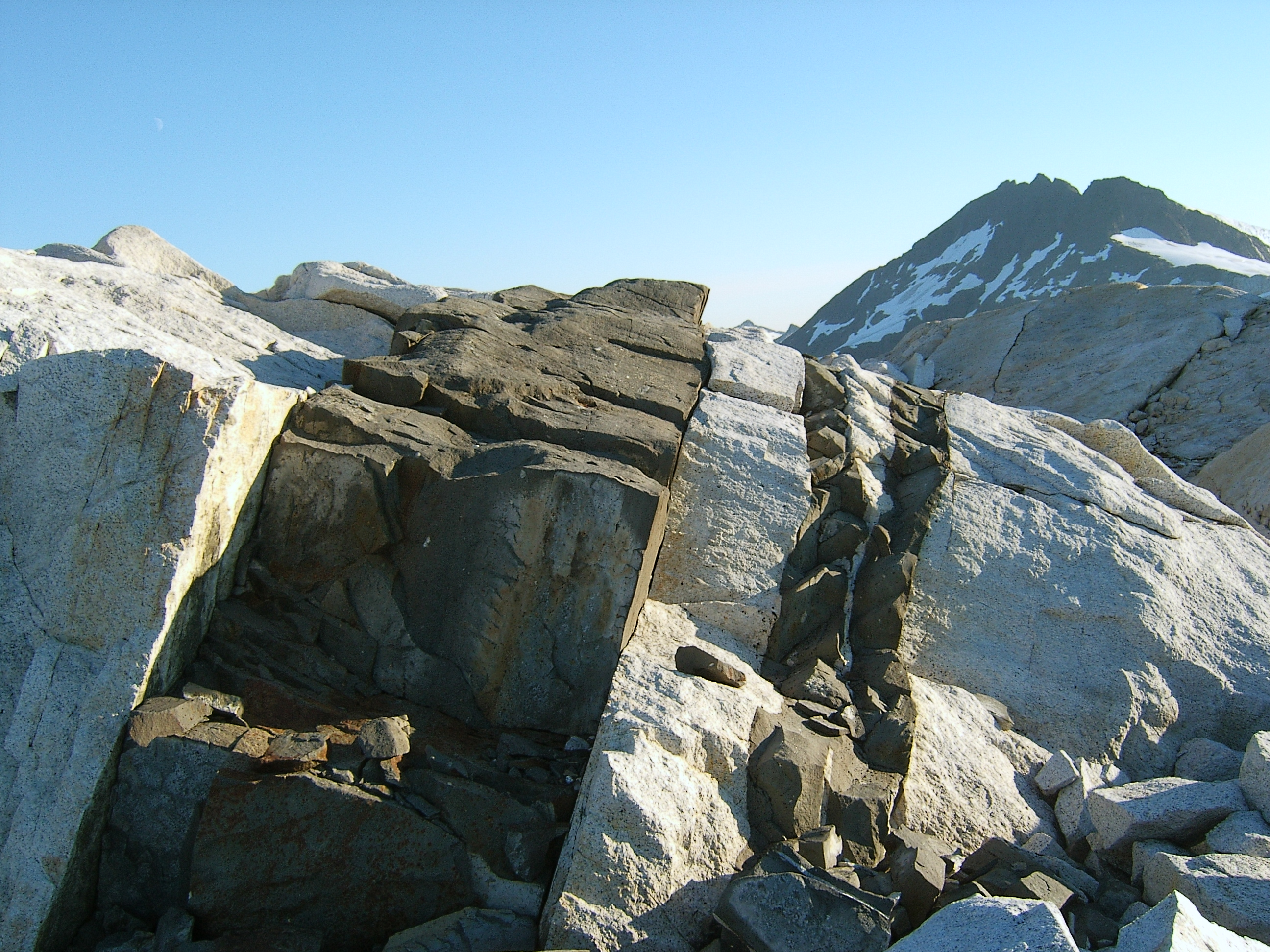 A small dike (or dyke) on the Baranof Cross-Island Trail, Alaska.